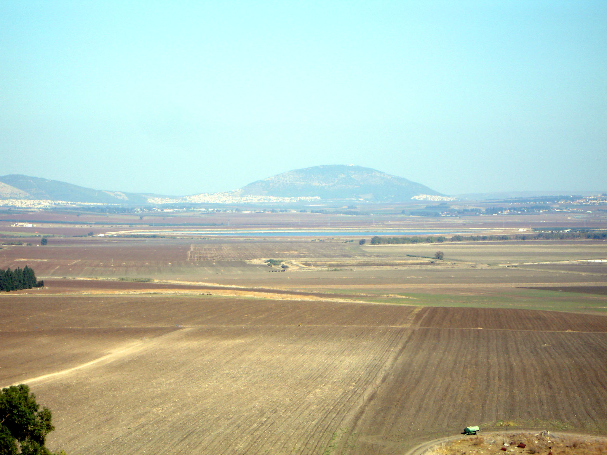 The view from Meggido, northeast across the Jezreel Valley in Israel to Mount Tabor